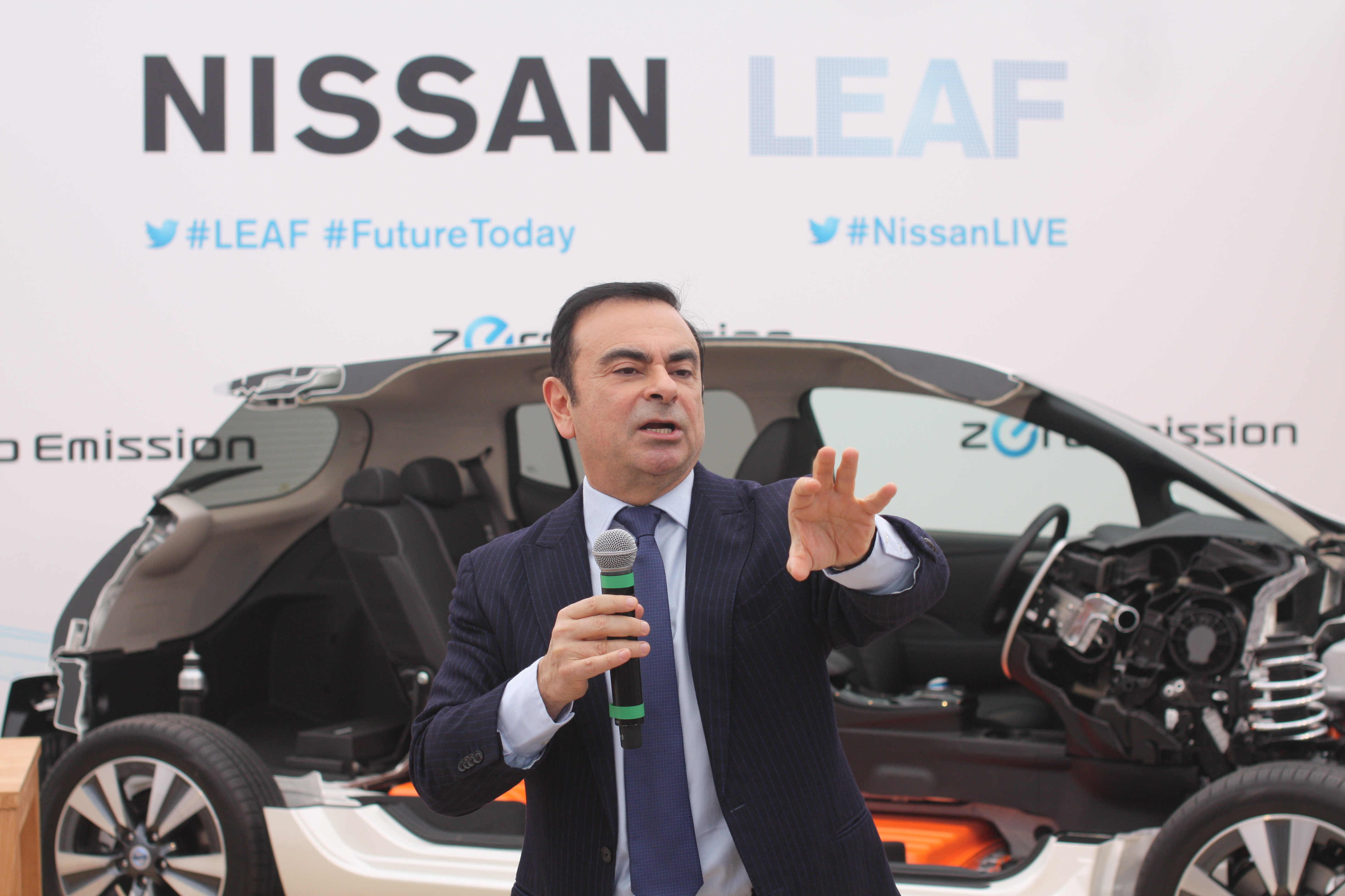 8 april 2013 Nissan Renault CEO Carlos Ghosn visited Norway to launch the new Nissan LEAF.